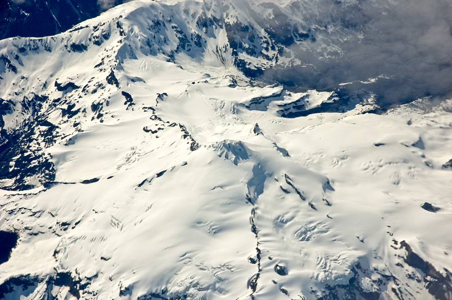 The second highest peak of the Yanteles volcano (also known as volcán Nevado) seen from a commercial flight.